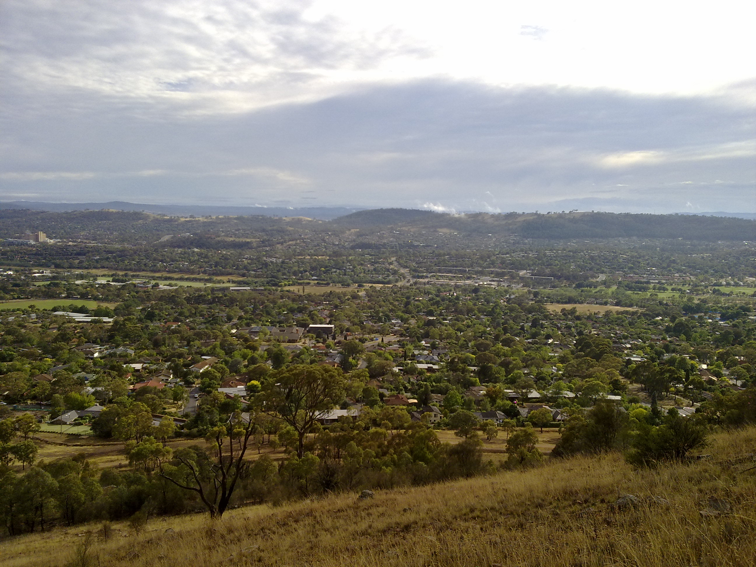 Looking towards Garran and O'Malley from Mount Taylor, Australia Capital Territory.